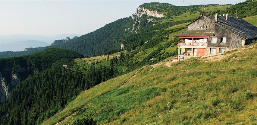 Isophya dochia habitat in Ceahlău Mountains, near Dochia cabin (1740 m).